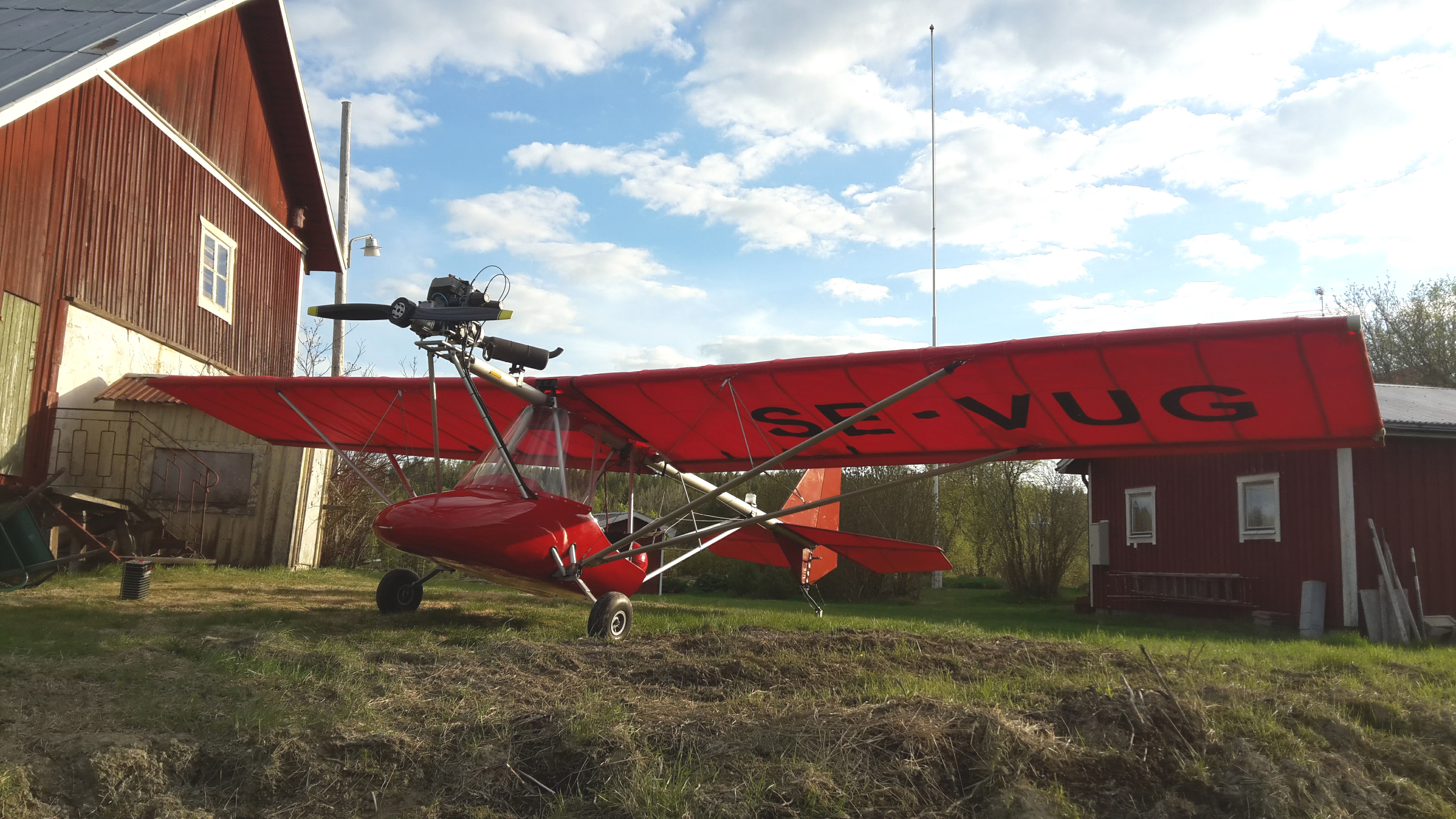 Thruster TST MK1 aircraft